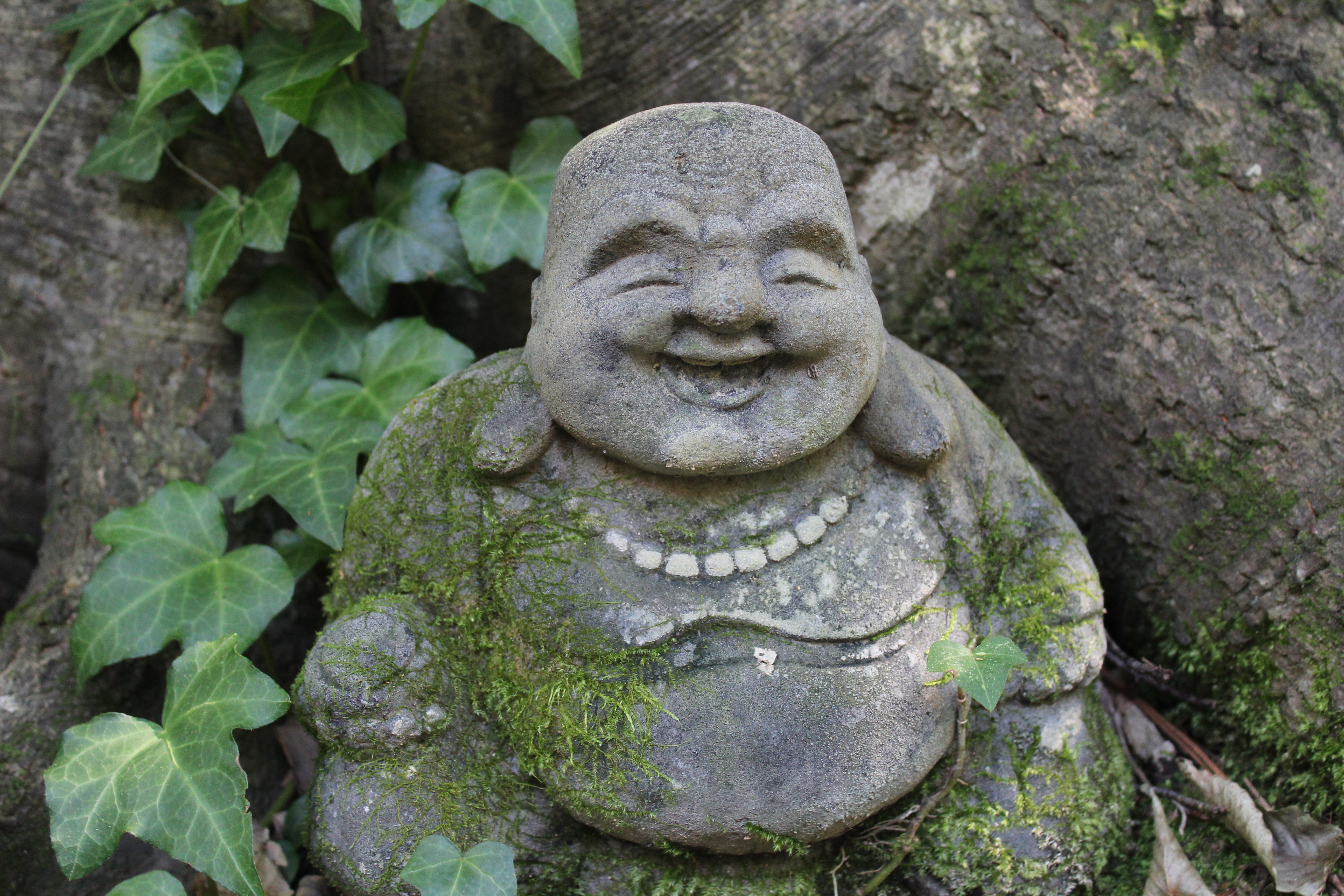 Small Budai statue with moss